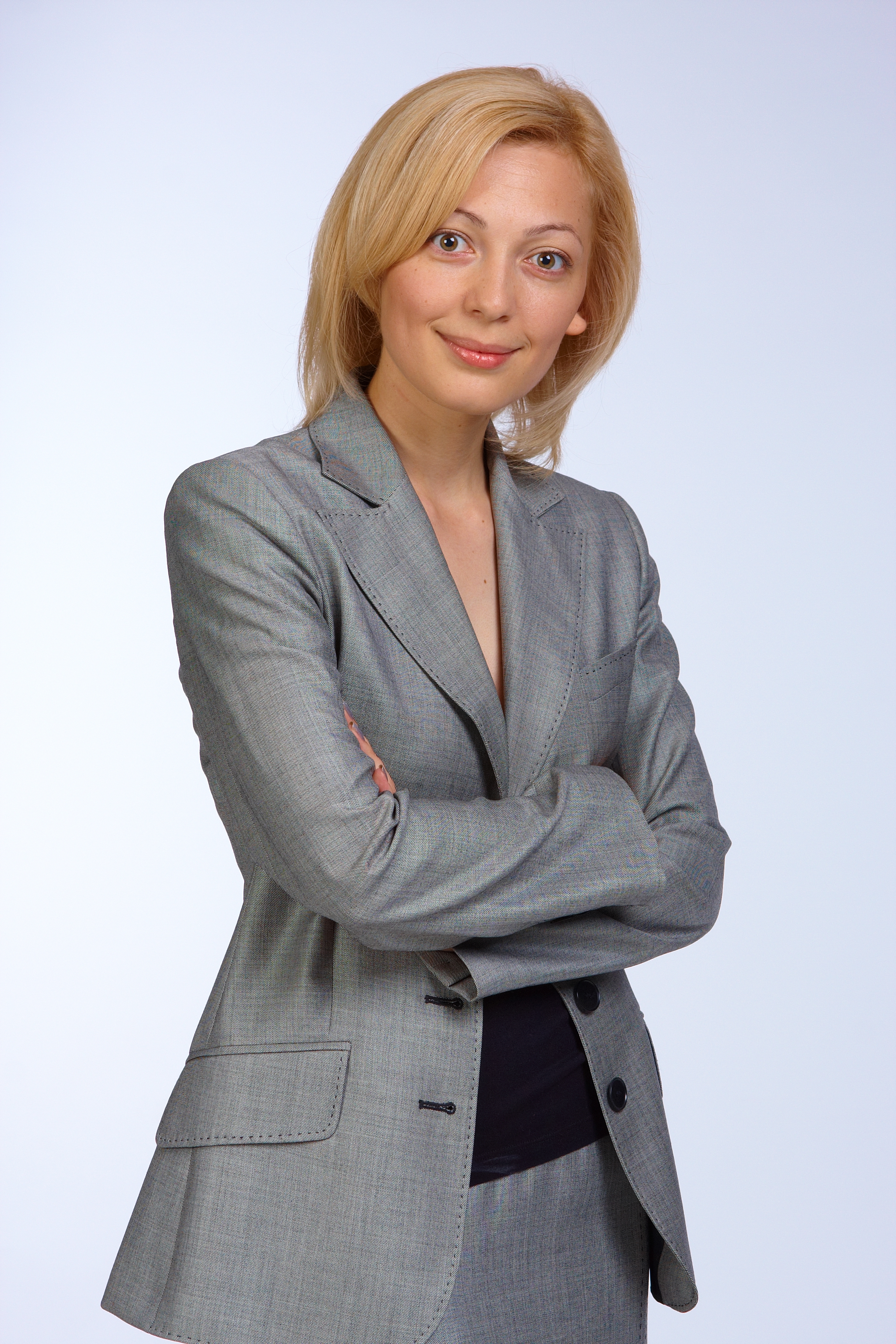 Olga Viktorovna Timofeeva (born 1977), a Russian journalist and politician.